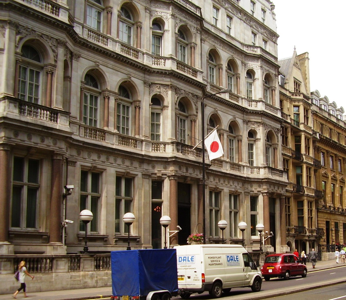 Embassy of Japan in London, taken by Barney Jenkins, June, 2008